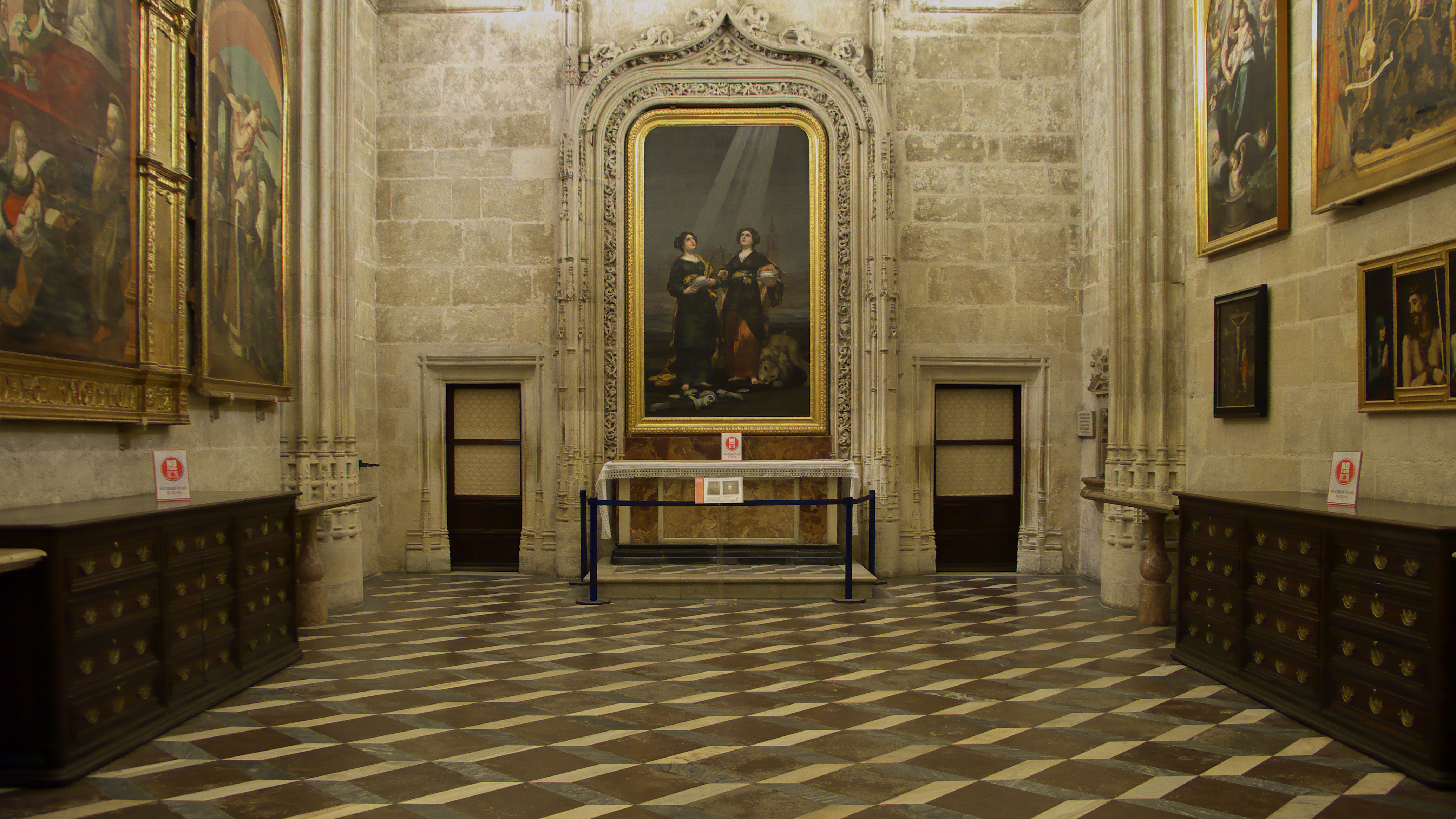 Sacristy of the Chalices